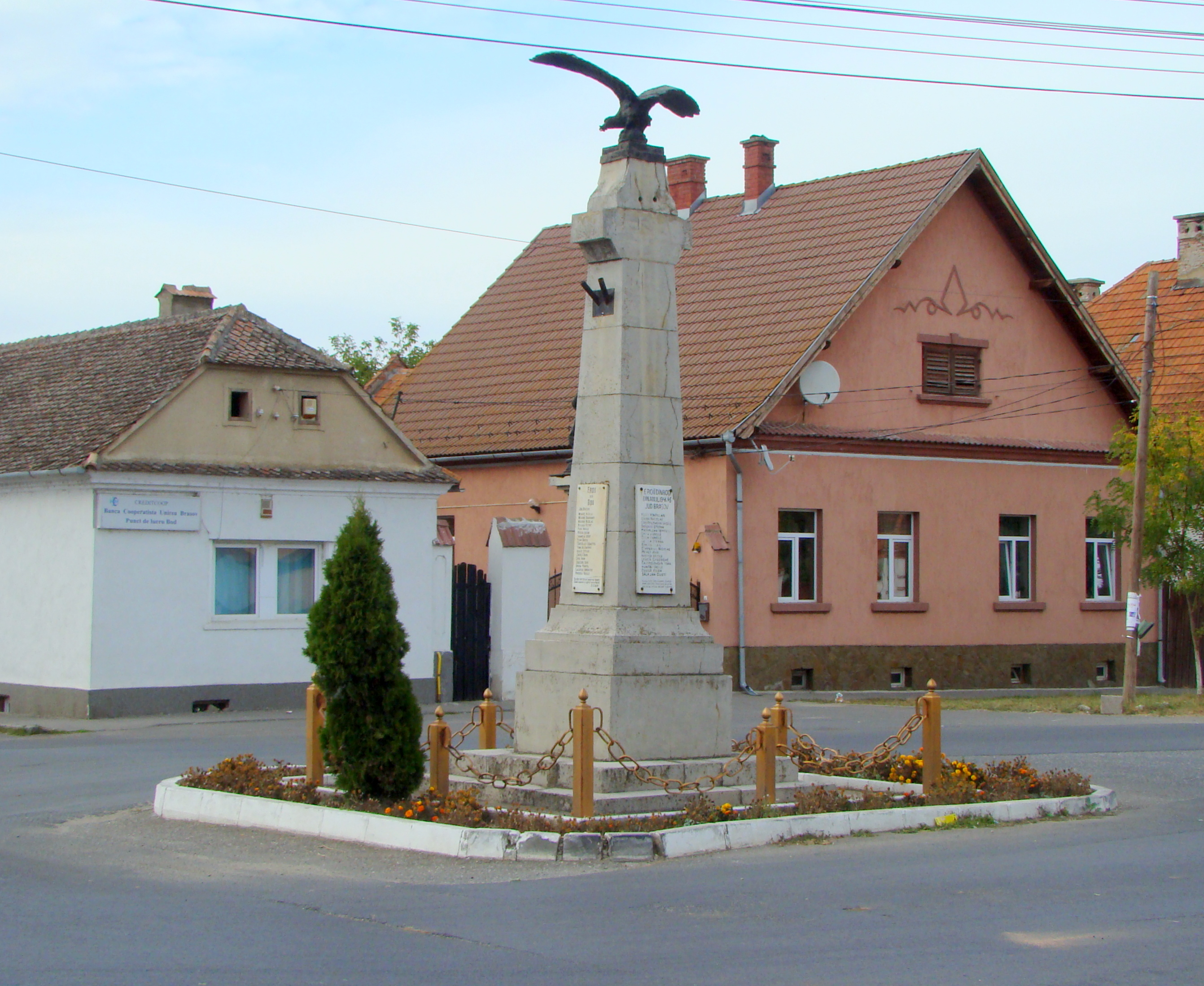 Bod, Brașov County, Romania